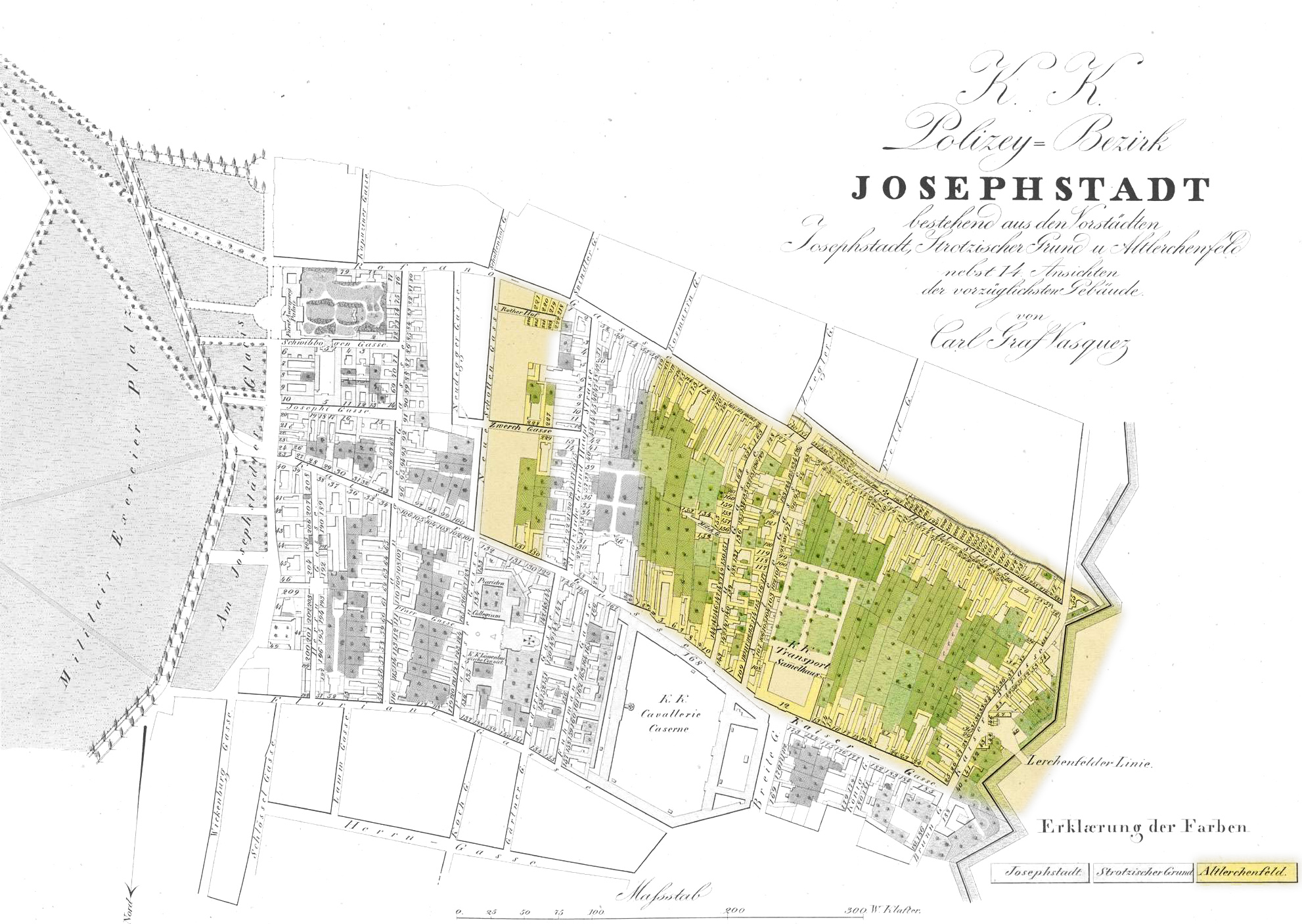 Map of Vienna / Altlerchenfeld, approx. 1830